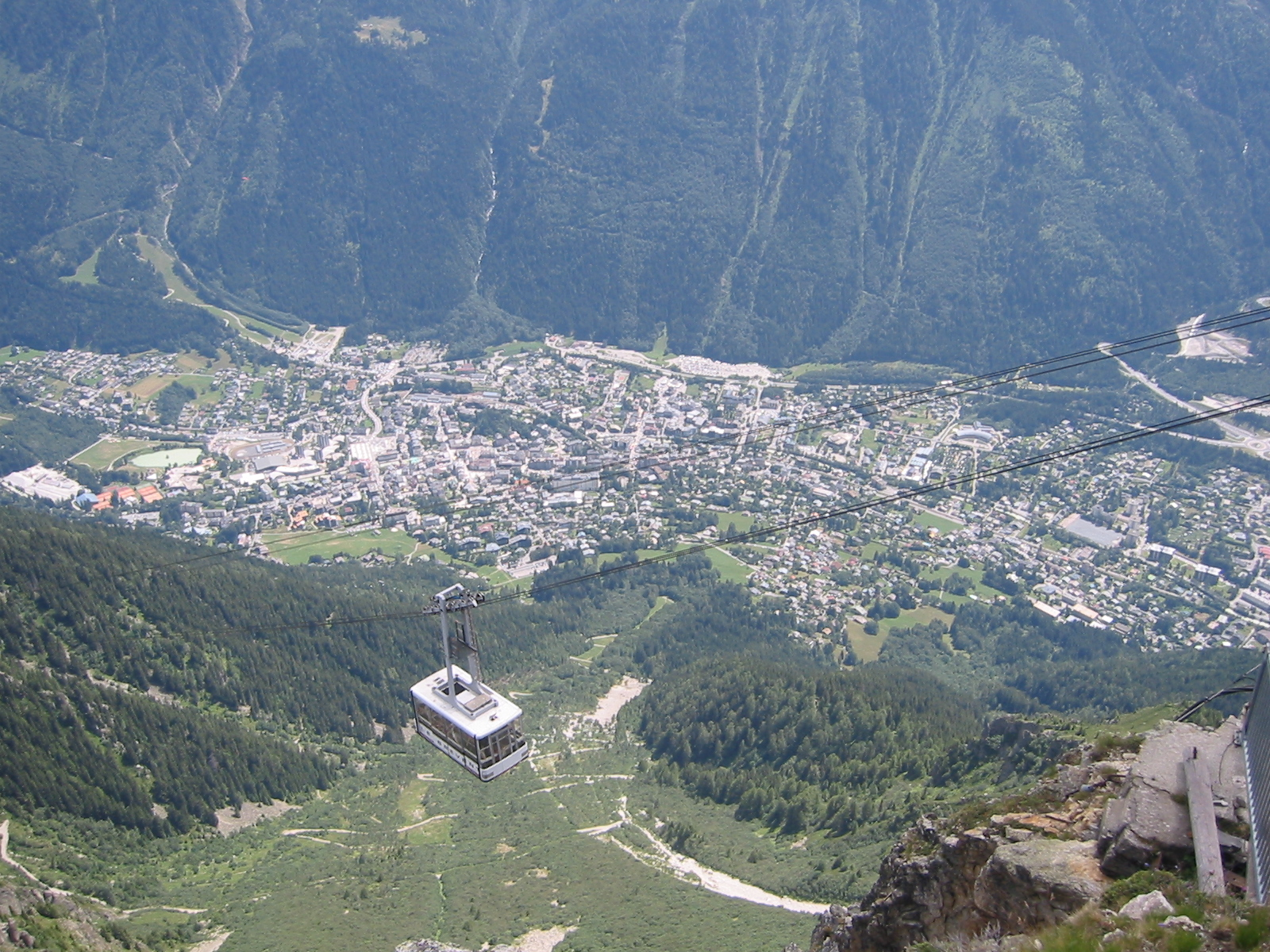 Chamonix and the cableway of Brevent, Chamonix, France, 2006.